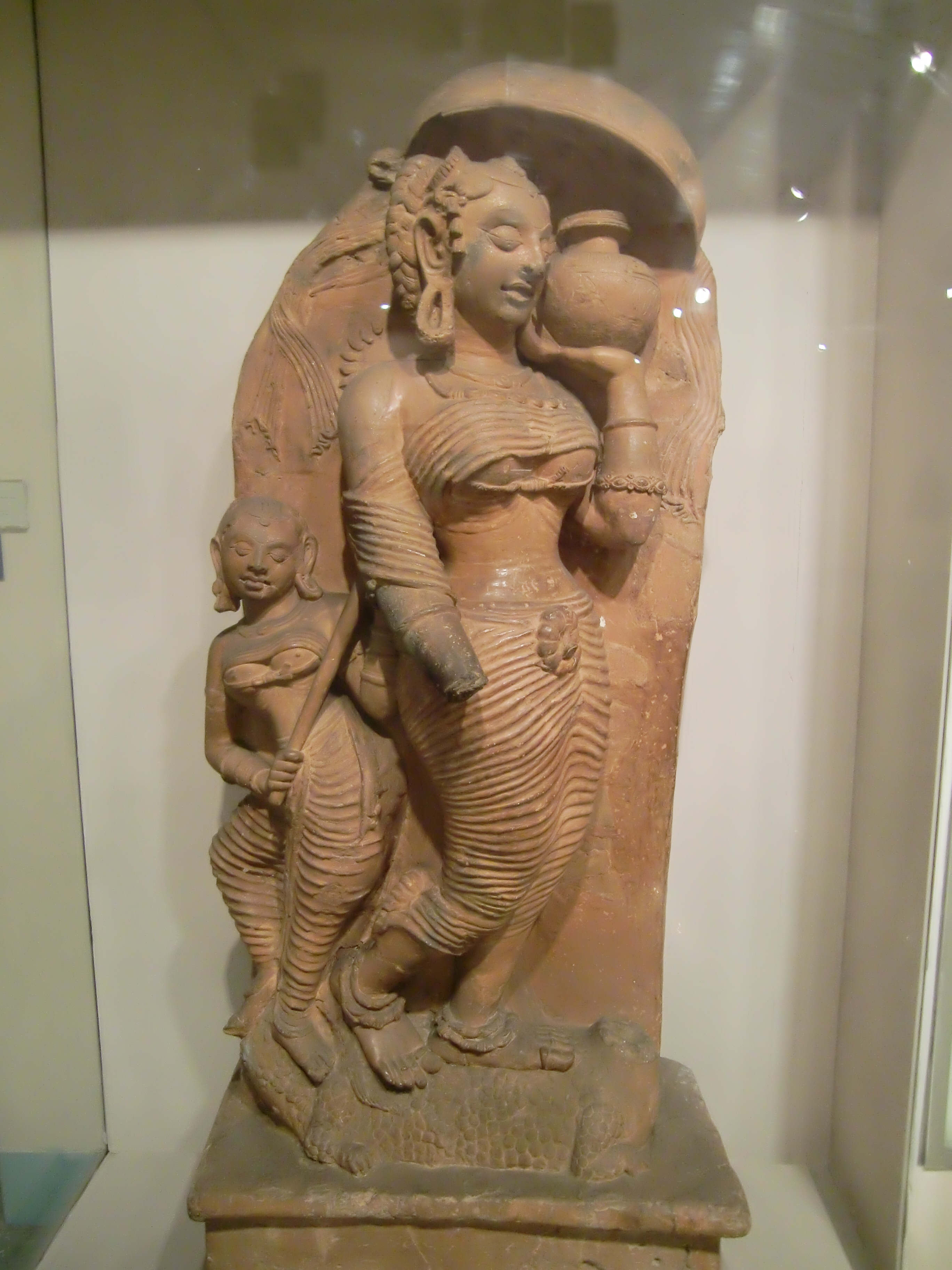 Goddess Ganga, National Museum of INDIA